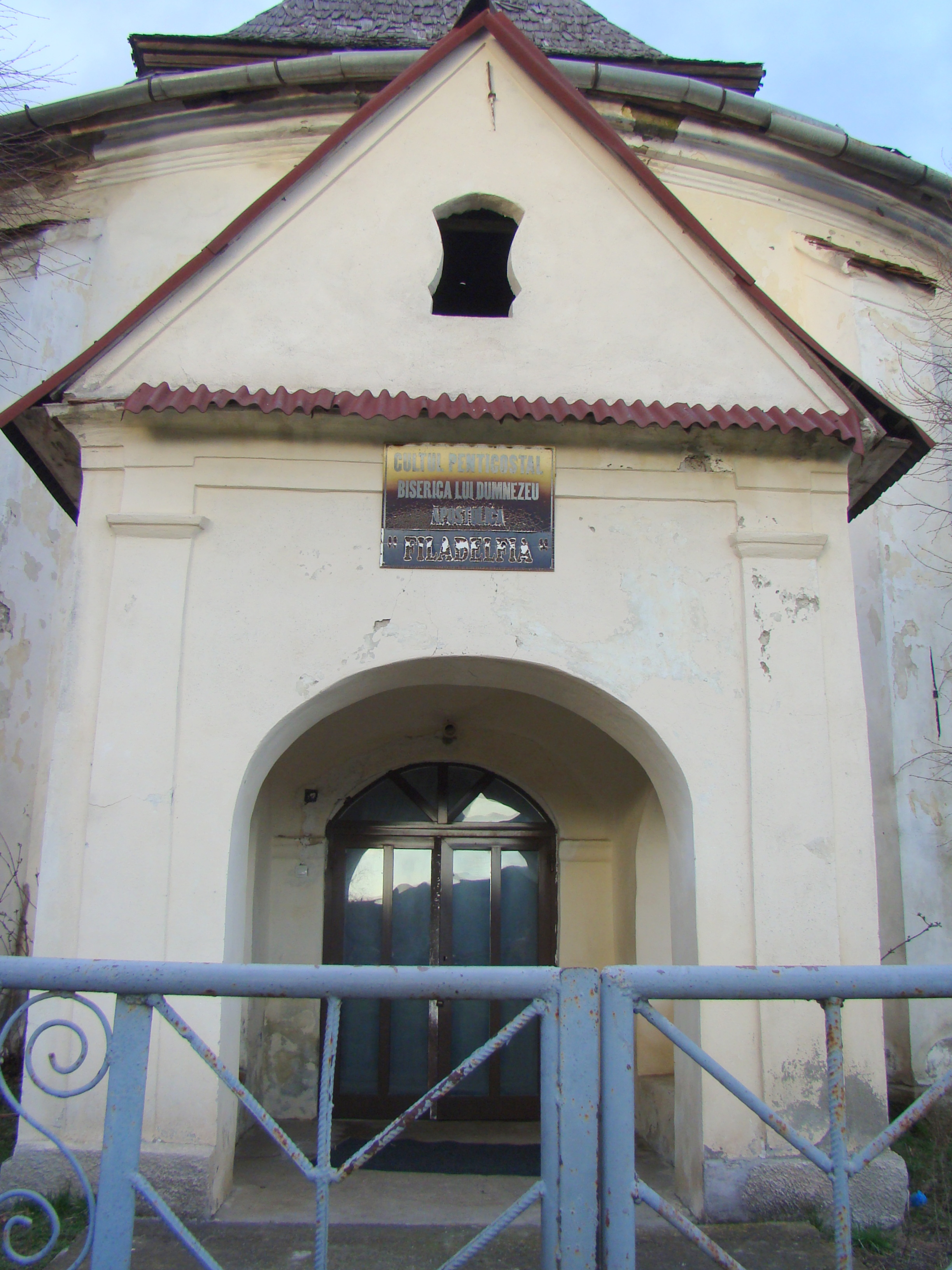 Lutheran church in Monariu, Bistrița-Năsăud county, Romania